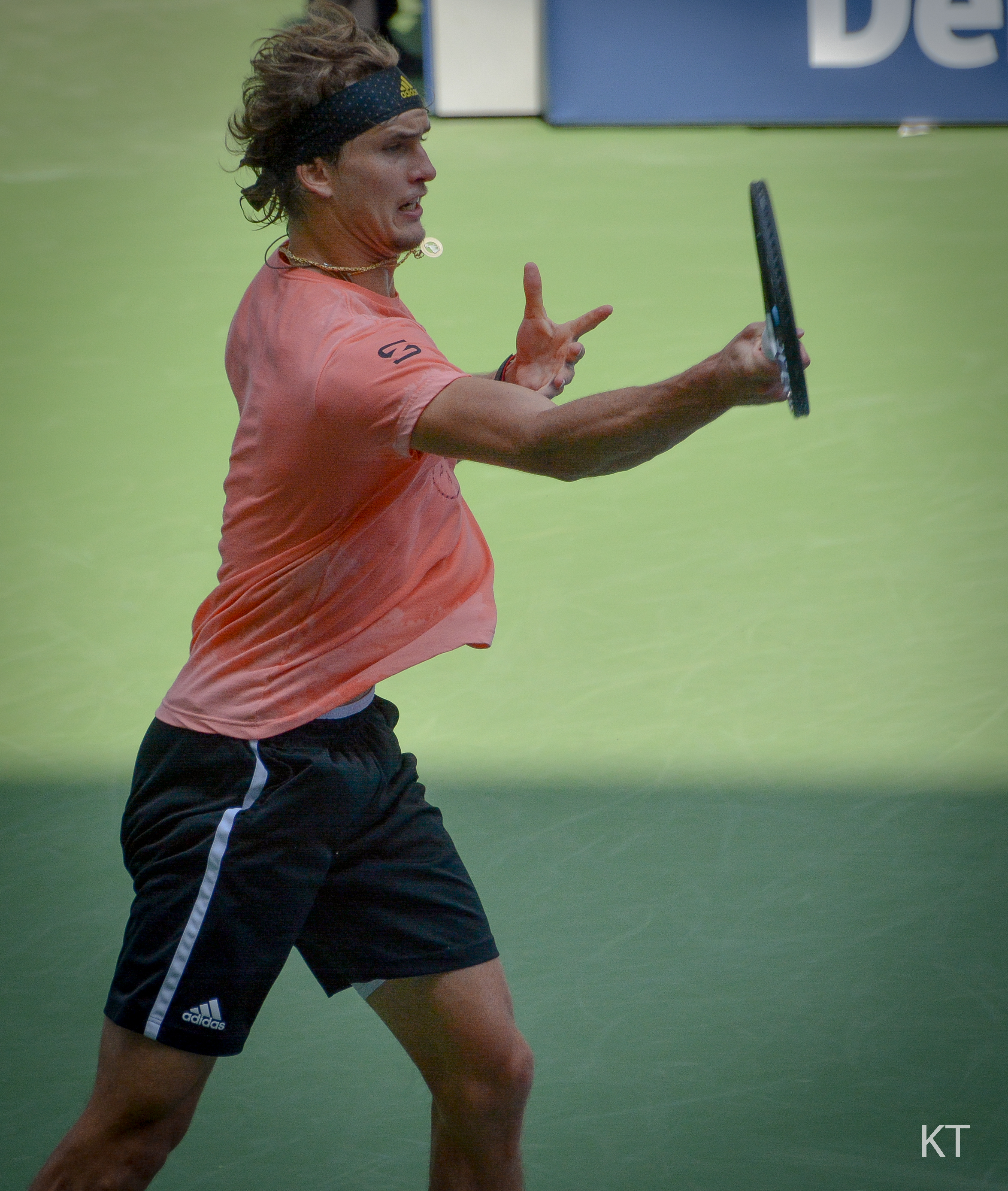 US Open – Practice day, Sunday 26th August 2018